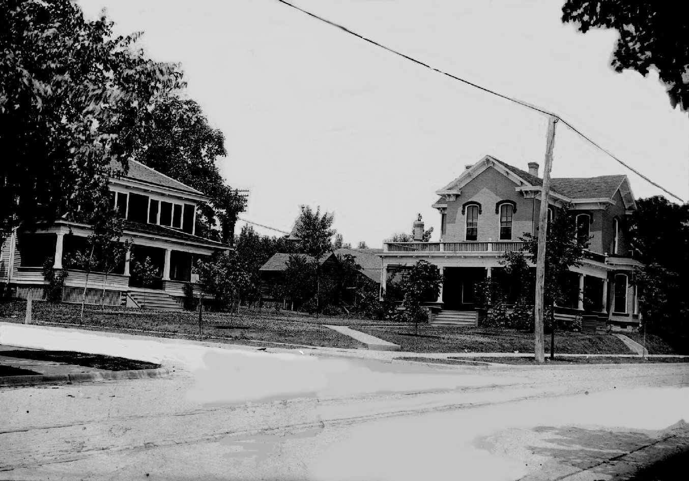 Two houses in Hartford City, Indiana around 1905. The inter-urban tracks pass in front of the houses.